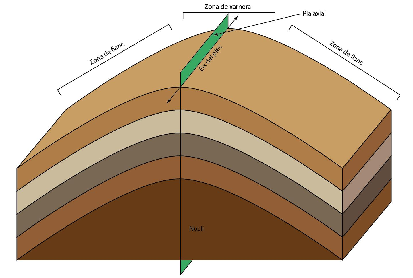 Fold diagram catalan indications